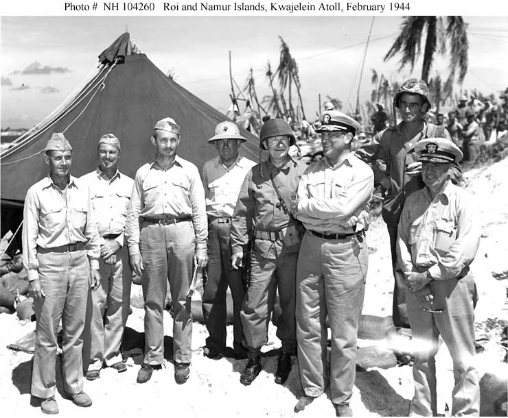 US Military officers inspecting damage after the capture of Roi and Namur Islands, Kwajelein Atoll. From left to right: Vice Admiral Raymond A. Spruance, USN; Rear Admiral Richard L. Conolly, USN: Assistant Secretary of the Navy James Forrestal; Major General Harry Schmidt, USMC; Major General Holland M. Smith, USMC; Vice Admiral Ben Moreell, USN (CEC); Lieutenant Colonel Evans Carlson, USMC, and Rear Admiral Charles A. Pownall, USN.